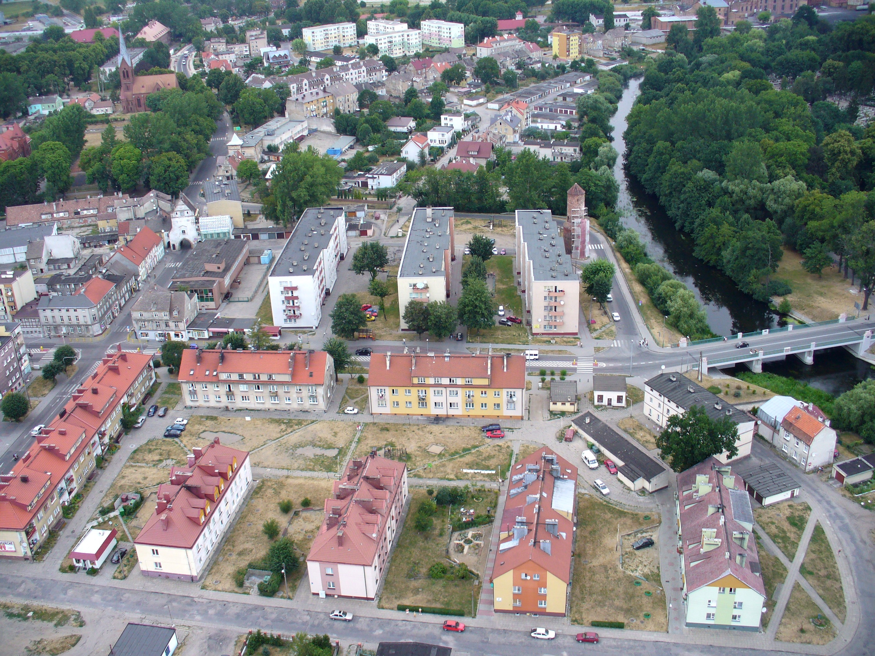 Bird's-eye view on Gryfice (Poland)